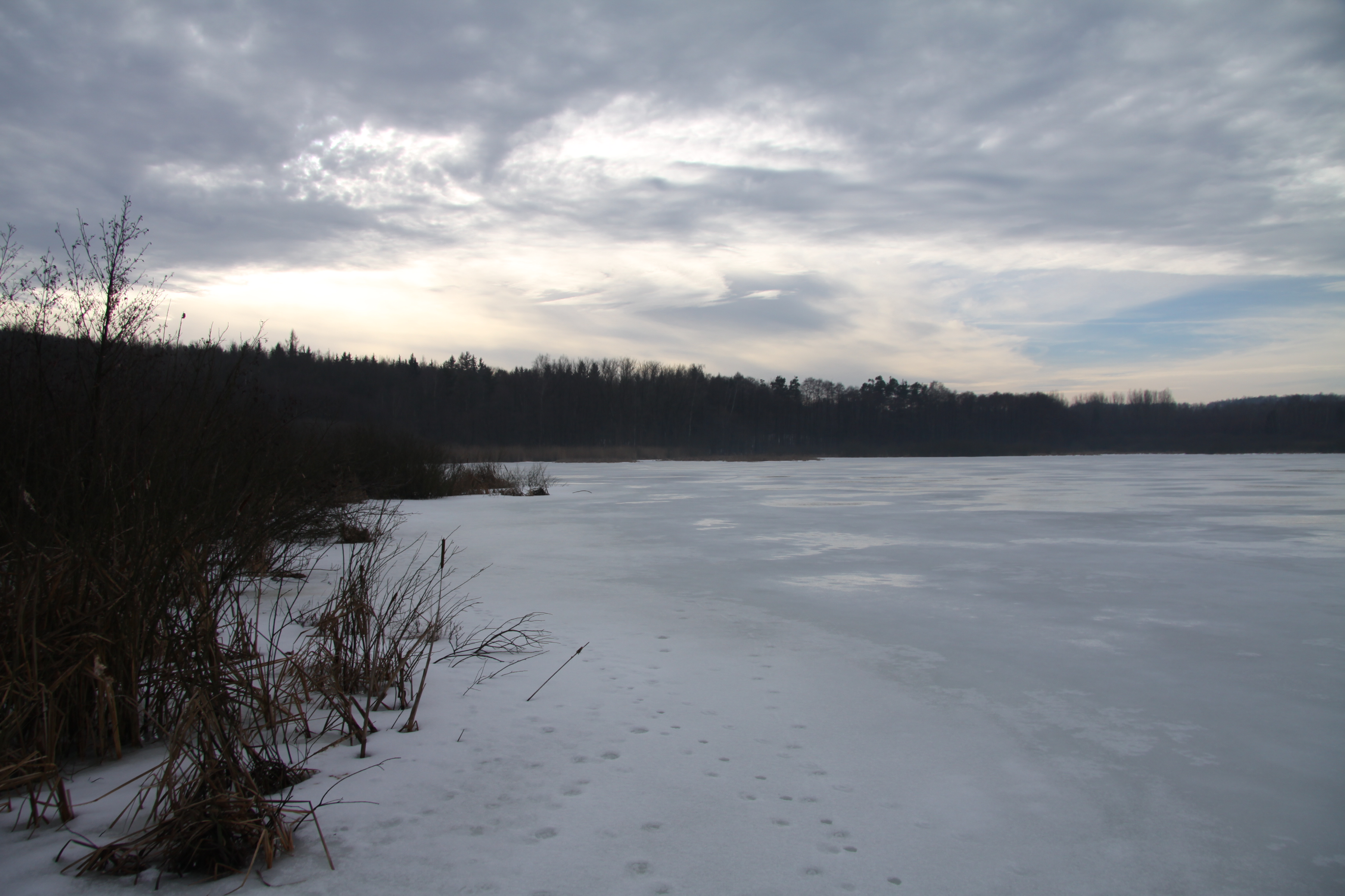 Natural reservation Záhorský rybník, Strakonice District, Czech Republic - Google Maps - Google Earth